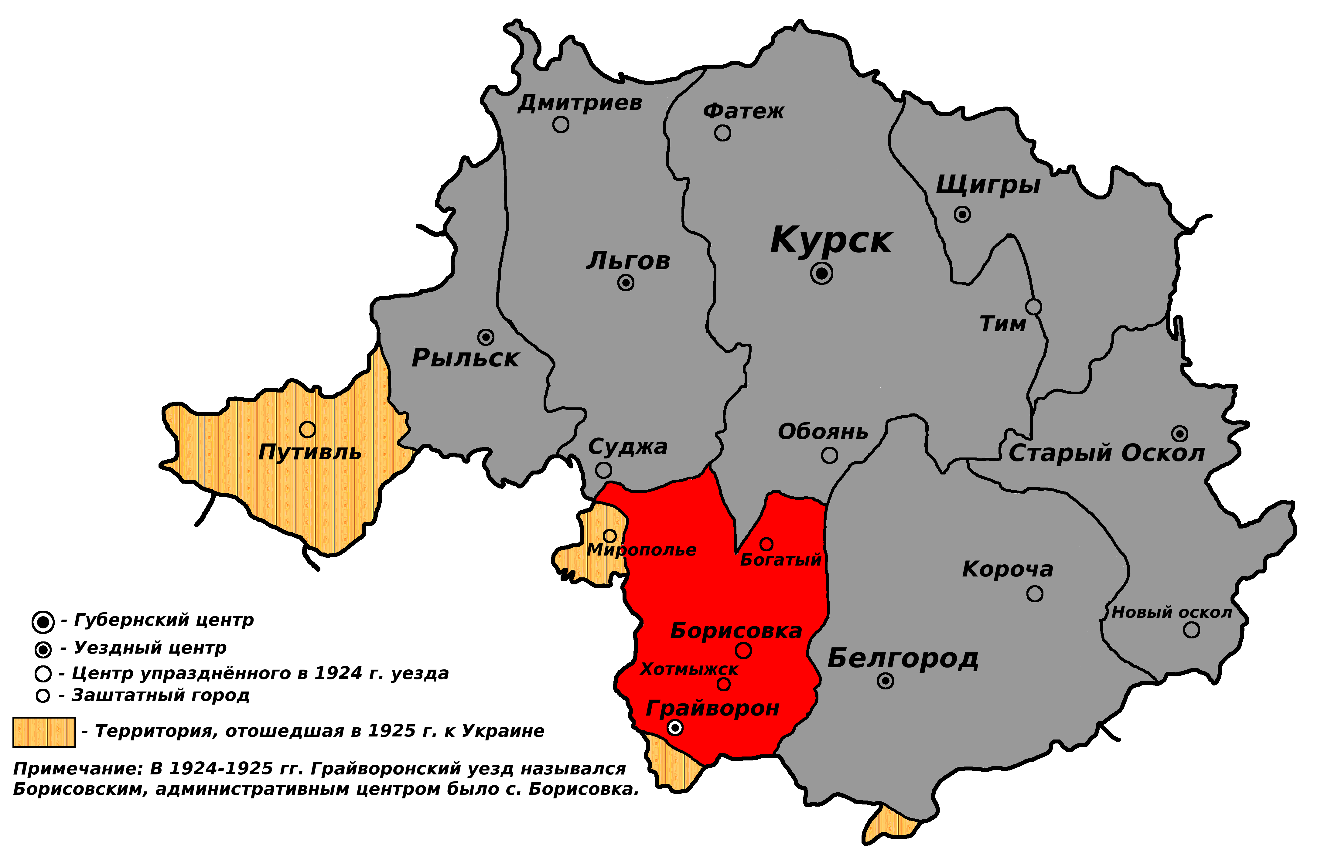 Kursk gubernia (RSFSR, 1925-1928), Grayvoronsky_uyezd